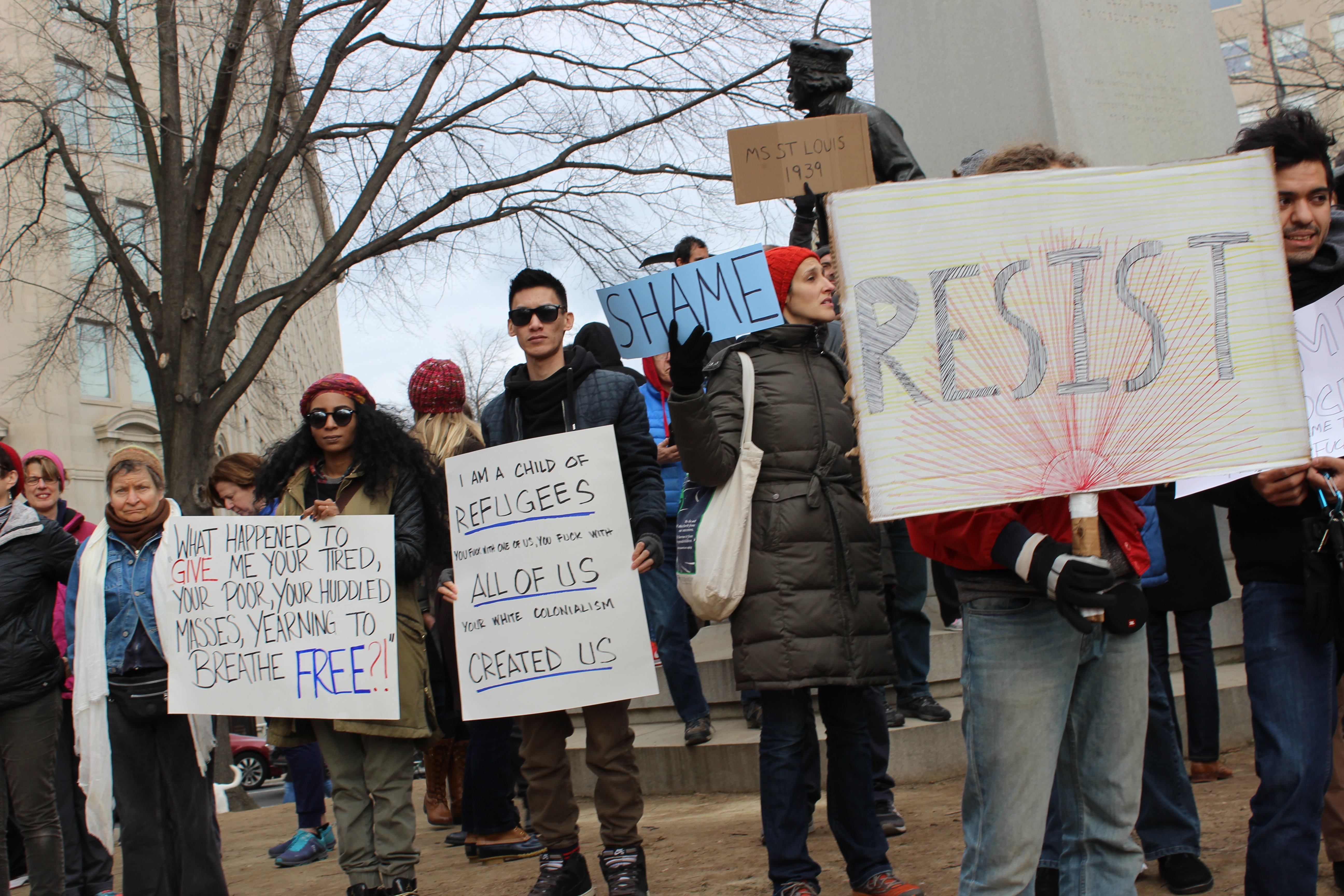 January 29, 2017 - Rally at the White House against the Muslim Ban Please credit Amy J. Pratt